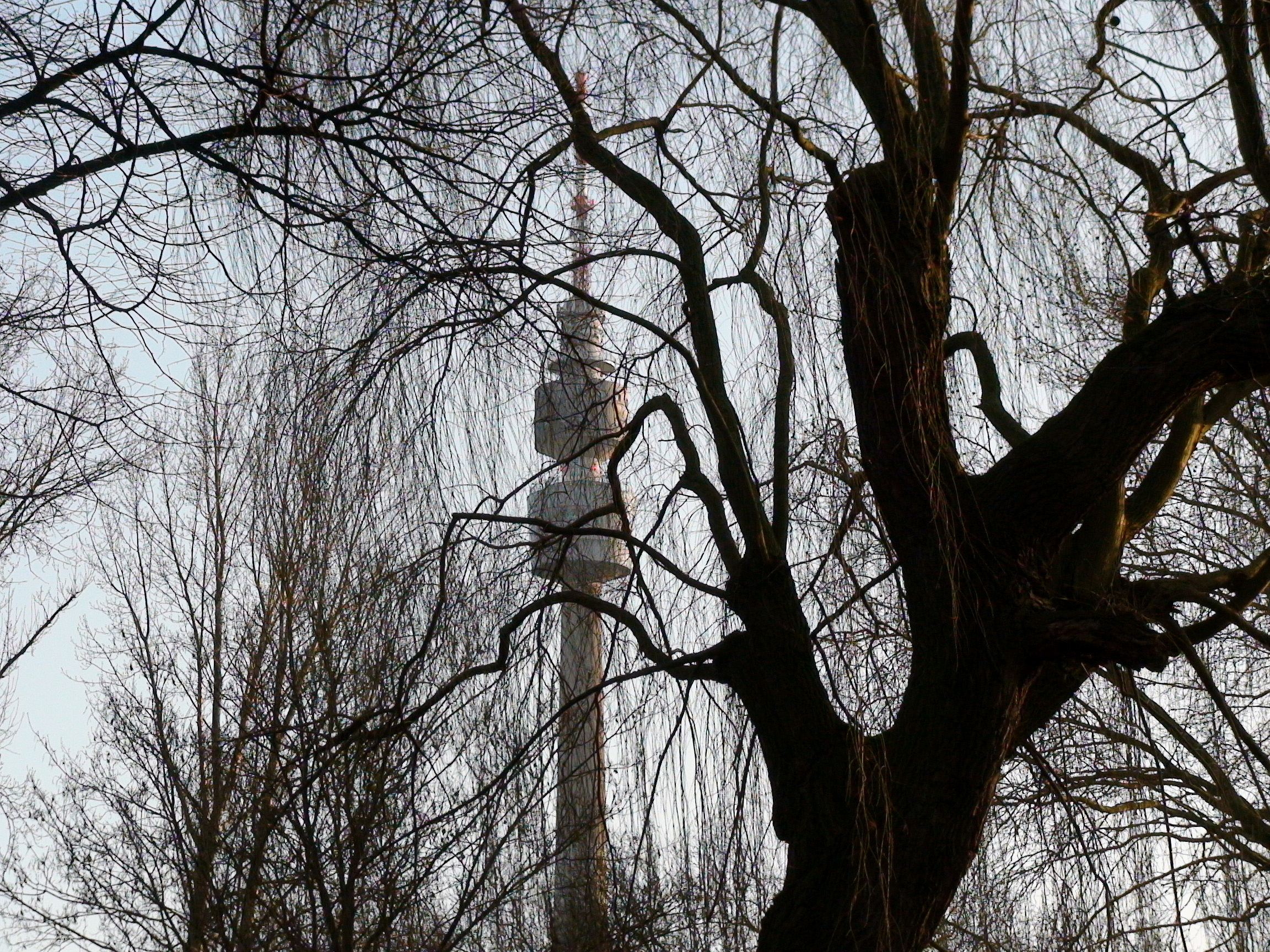 Dortmund, View from Stadewäldchen to the TV tower "Florian"